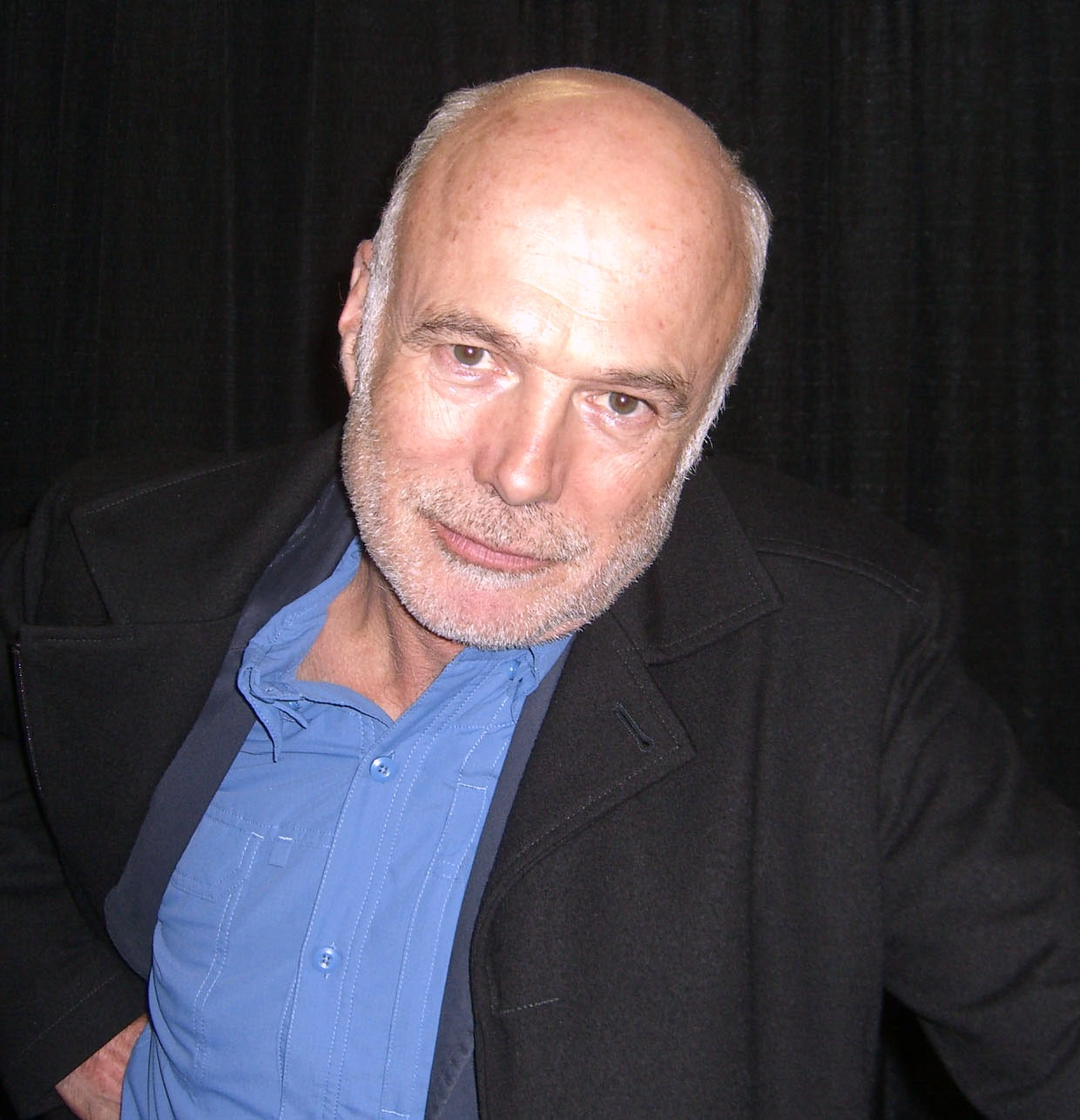 Actor Michael Hogan at the Big Apple Convention in Manhattan. Photo by Luigi Novi. This photo may be used, modified and published for any purpose, only if a easily visible credit to the photographer is placed near the photo in each instance in which it is used. (See licensing information below.) Publication of this photo without this proper attribution constitute copyright infringement. For more information on my photos, you can contact me here.